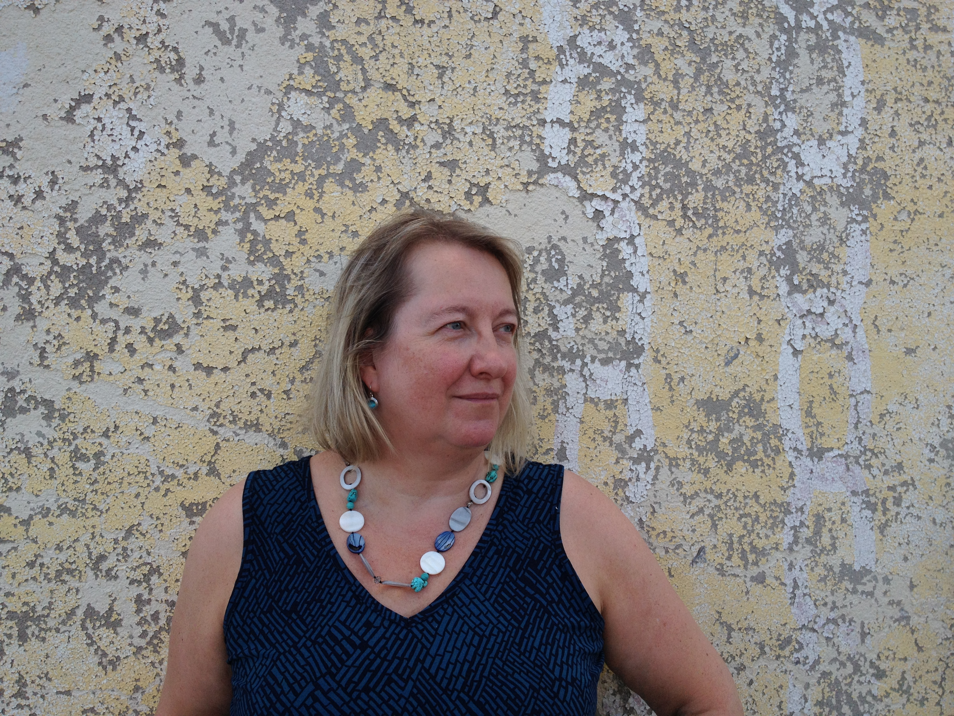 Photo of Diana Liverman